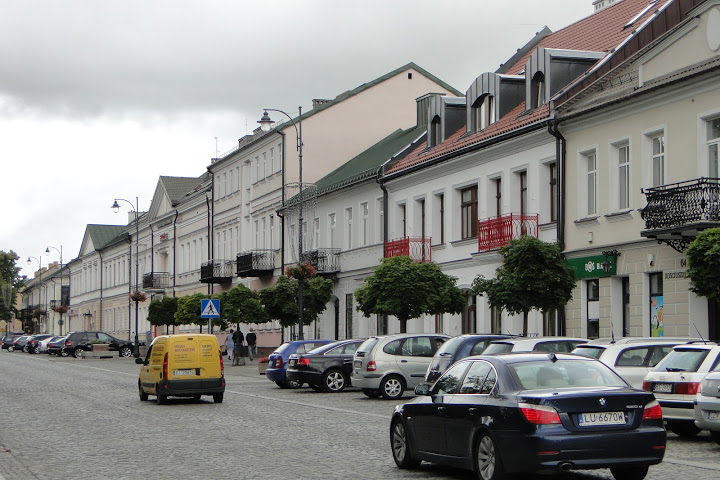 Tadeusz Kosiuszki street